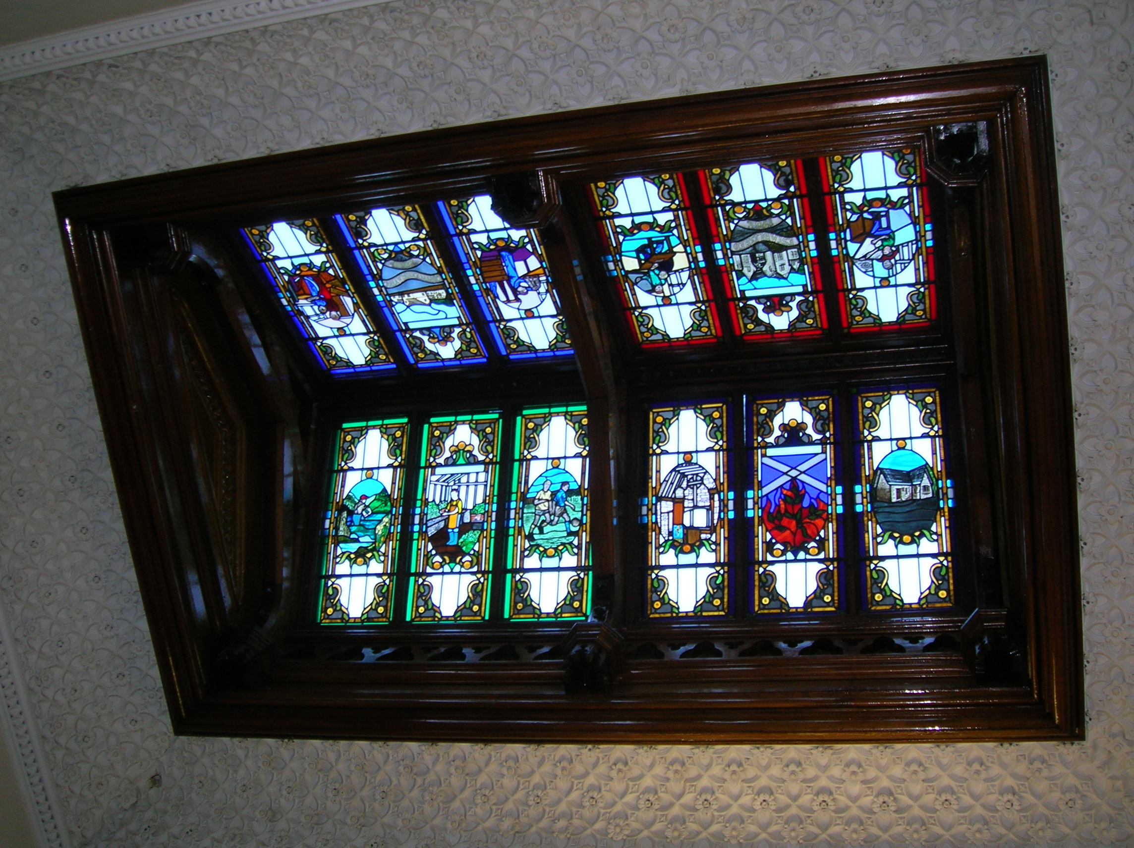 Ornamental stained glass window at Geilsland House, Beith, North Ayrshire, Scotland. A Church of Scotland special school.